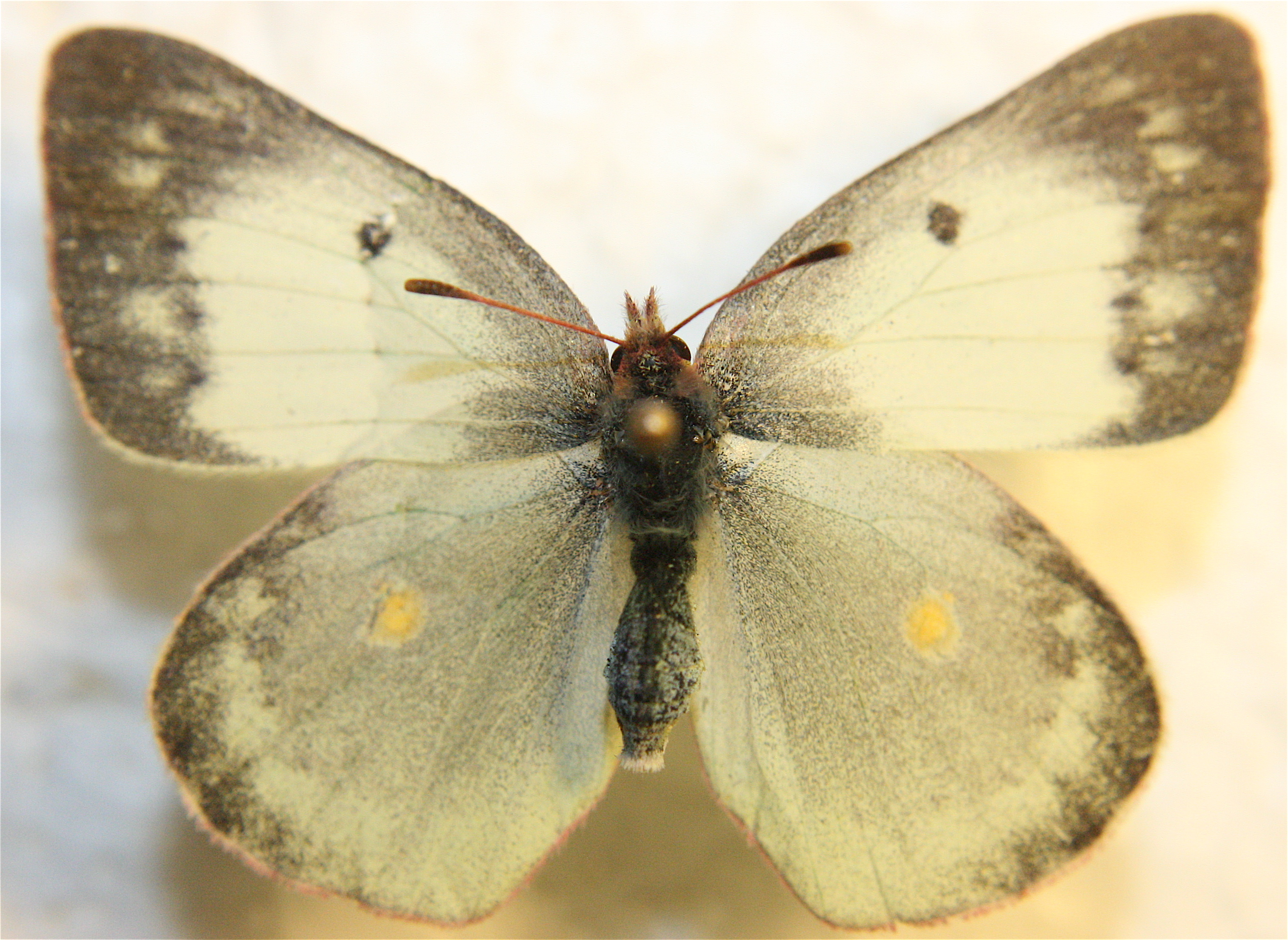 A Colias philodice (Clouded Sulphur) showing it's white form (female). It is in my personal collection. Collection Information 43mm Wingspan October 11th, 2008 Fort Custer Recreation Area, Augusta, Michigan, United States of America